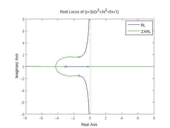 This is a MATLAB screenshot of rlocus plot of s + 3 s 3 + 3 s 2 + 5 s + 1 {\displaystyle s+3 \over s^{3}+3s^{2}+5s+1} .